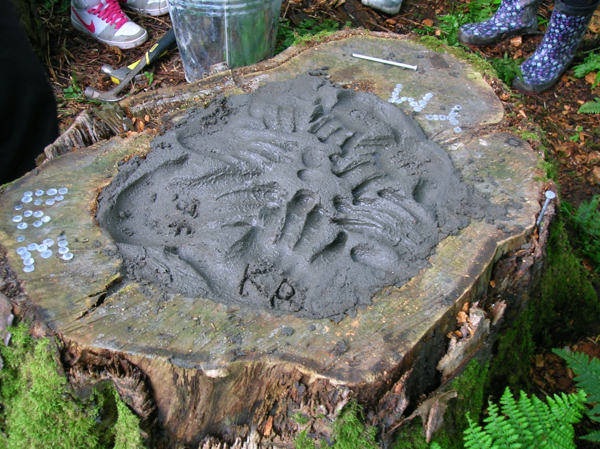 Petrosomatoglyphs of hands in concrete within a tree stump at Spier's parklands, Beith, North Ayrshire, Scotland.